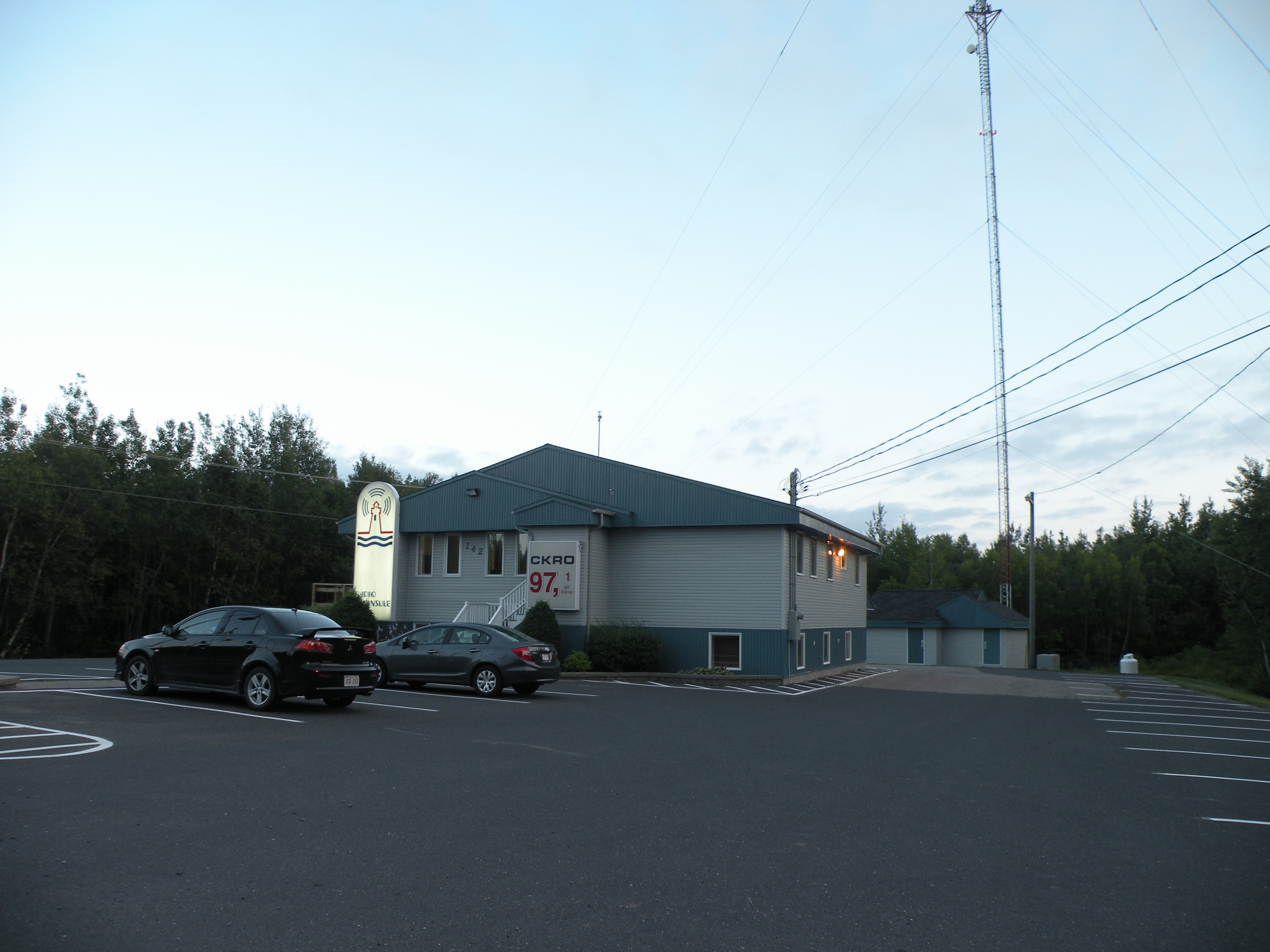 Building of the CKRO-FM radio station.